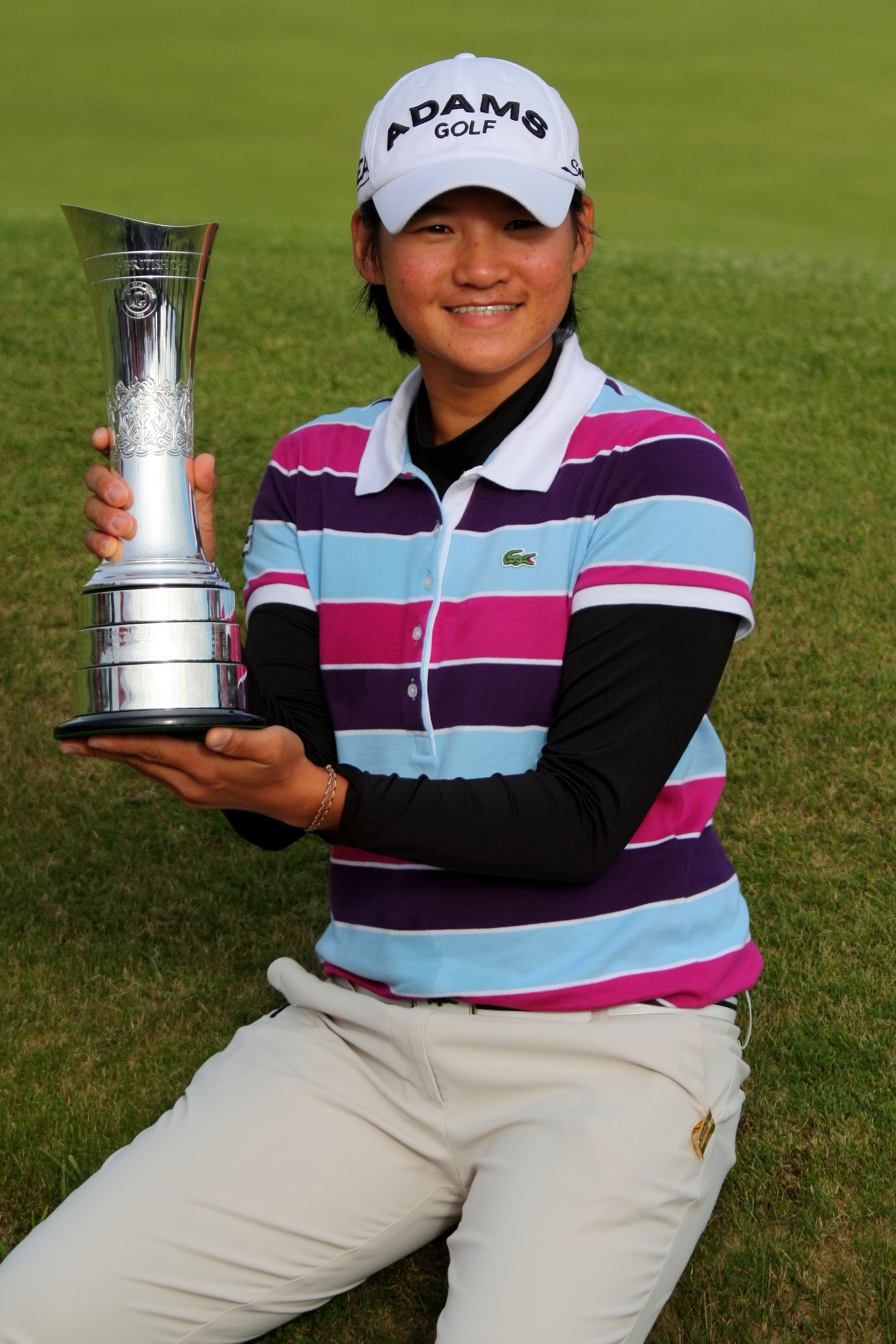 SOUTHPORT, UNITED KINGDOM – AUGUST 1: Yani Tseng of Taiwan poses with a trophy after winning 2010 Ricoh Women's British Open held at Royal Birkdale on August 1, 2010 in Southport, England. (Photo by Wojciech Migda)